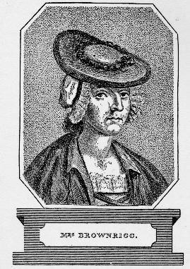 18th century portrait of Elizabeth Brownrigg from the Newgate Calendar.